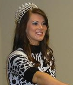 Miss Indiana USA Allison Biehle greets troops at Camp Atterbury Joint Maneuver Training Center as they gather for Operation Comedy, a tour brainstormed by comedian Jon Stites to bring awareness to the Yellow Ribbon Reintegration Program. The Yellow Ribbon program provides National Guard and Reserve members and their families with information throughout a servicemember's deployment cycle.